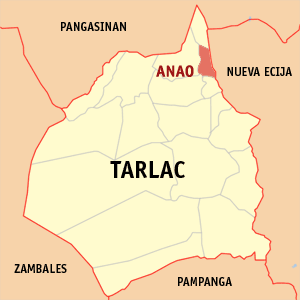 Map of Tarlac showing the location of Anao